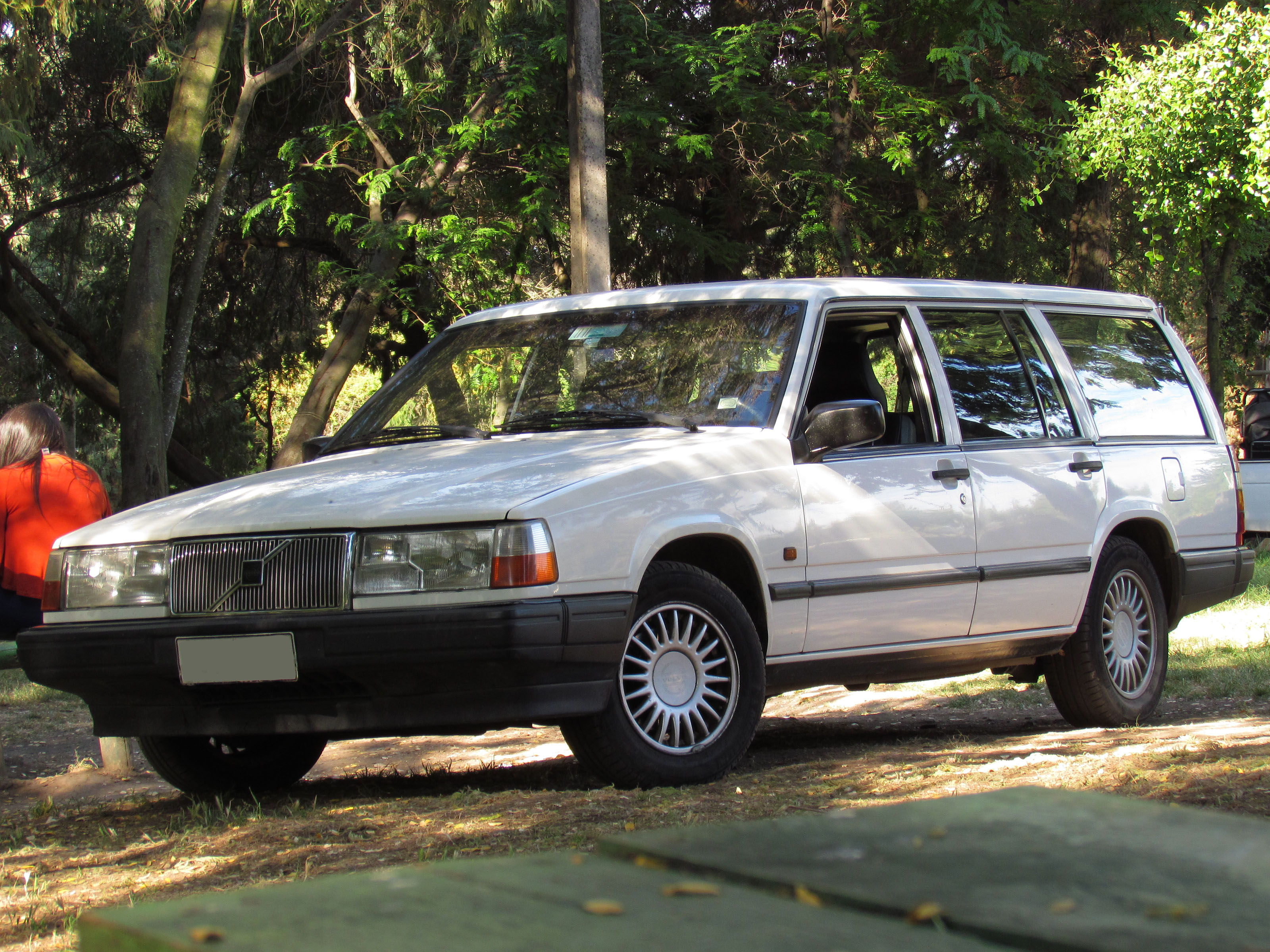 Volvo 940 GL Estate 1993